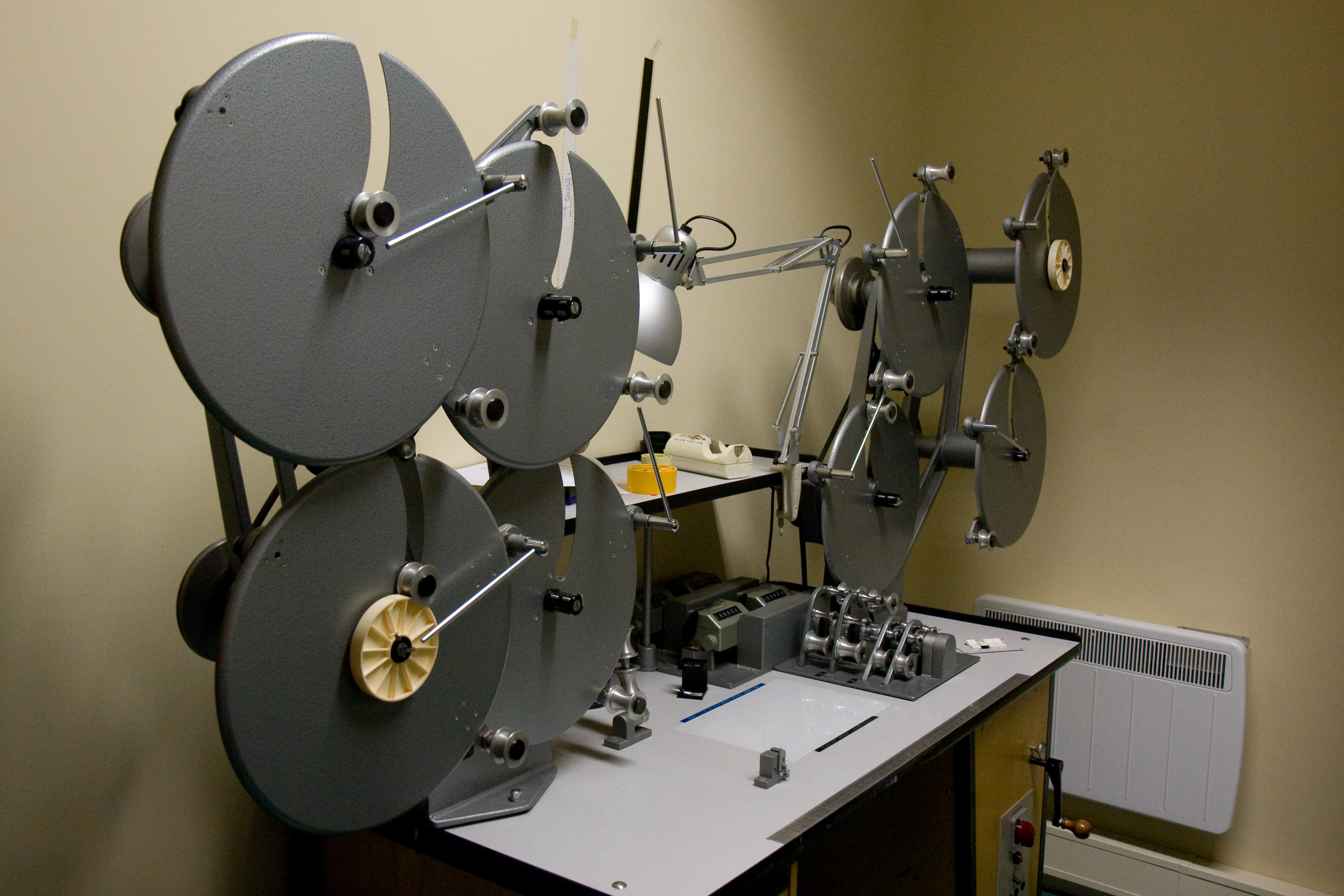 Film editing table